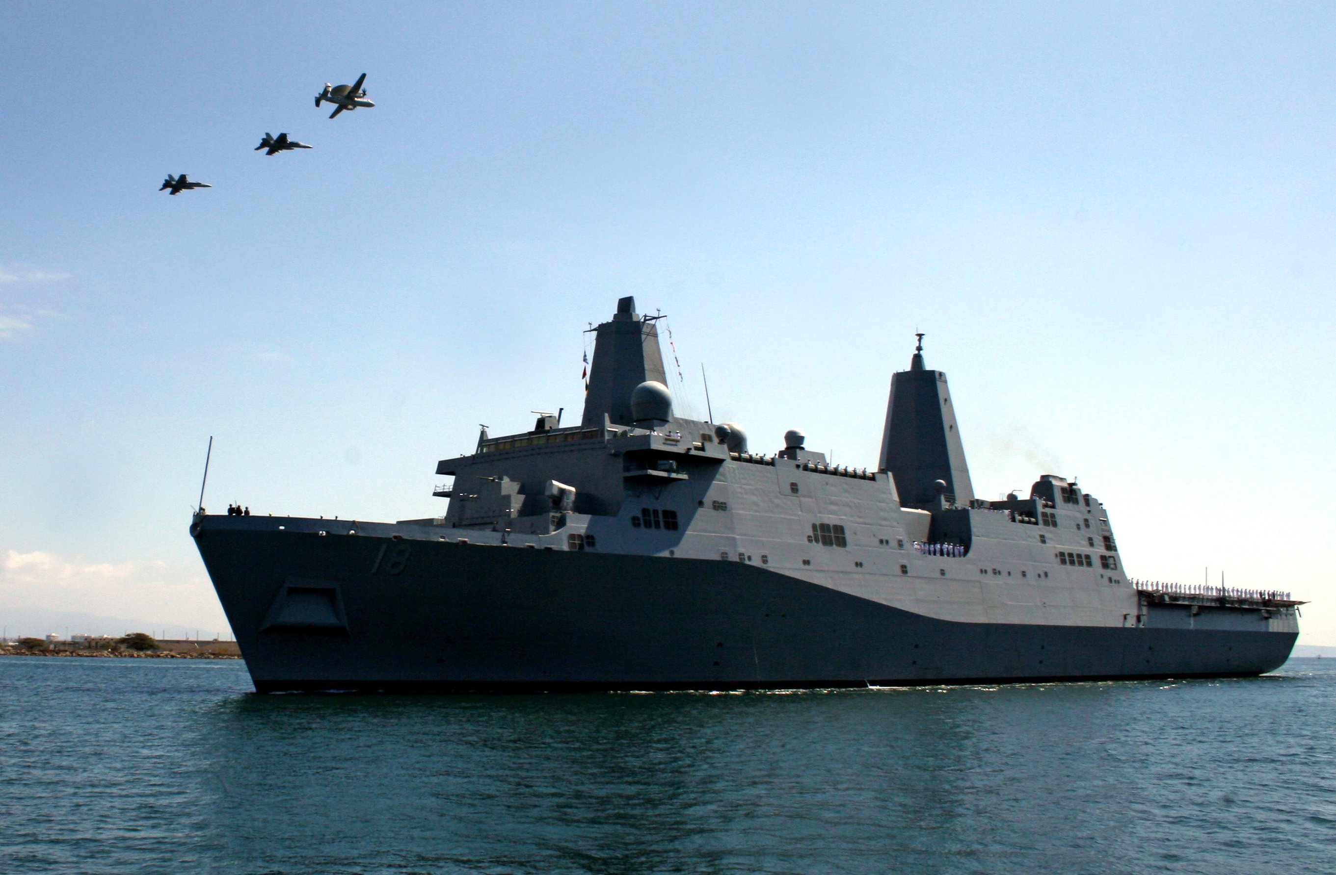 070929-N-1328S-407 SAN DIEGO - An F/A-18C Hornet, F/A-18F Super Hornet and E-2C Hawkeye fly over the San Antonio-class amphibious transport dock USS New Orleans (LPD 18) during the city’s Sea and Air Parade. The annual event, which is part of the month-long Fleet Week celebration, featured a parade of ships through San Diego Bay and flybys from Navy, Marine Corps and Coast Guard aircraft.